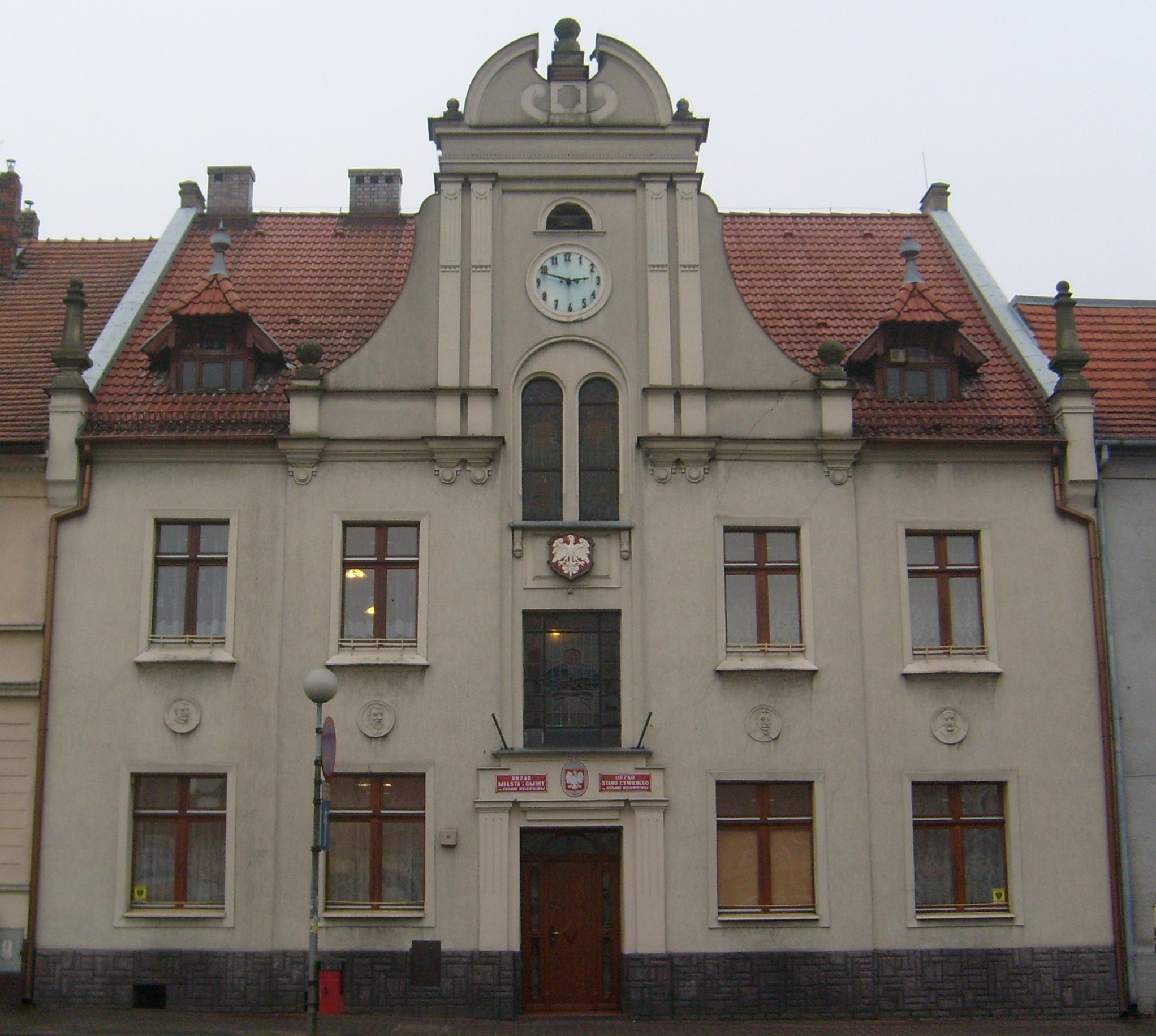 Town Hall in Kozmin Wielkopolski